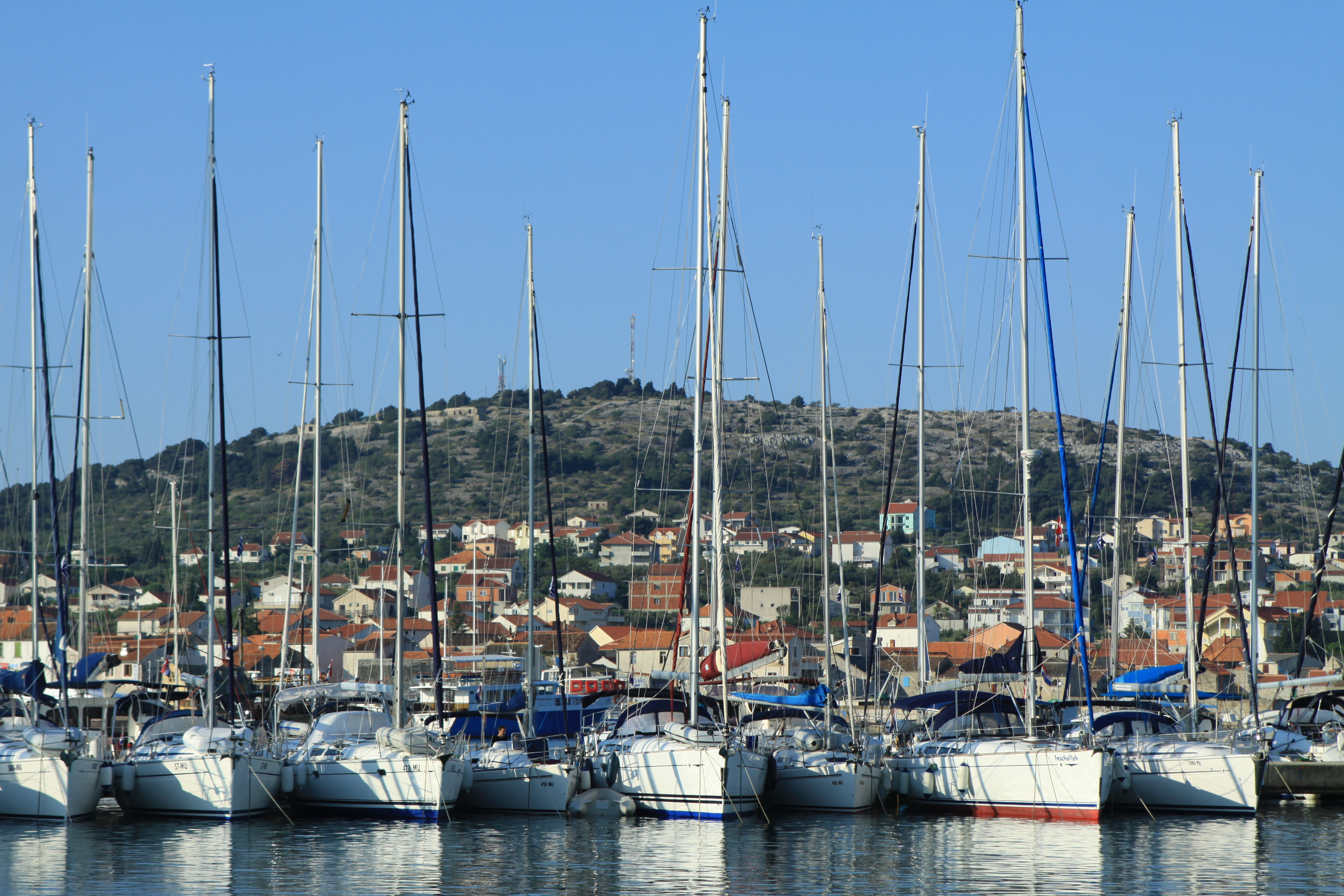 Sailboats in Murter.